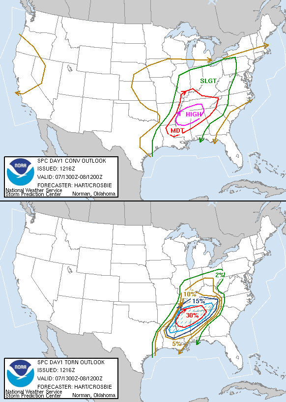 Probabilistic maps issued by the Storm Prediction Center during the heart of the April 6-8, 2006 Tornado Outbreak.